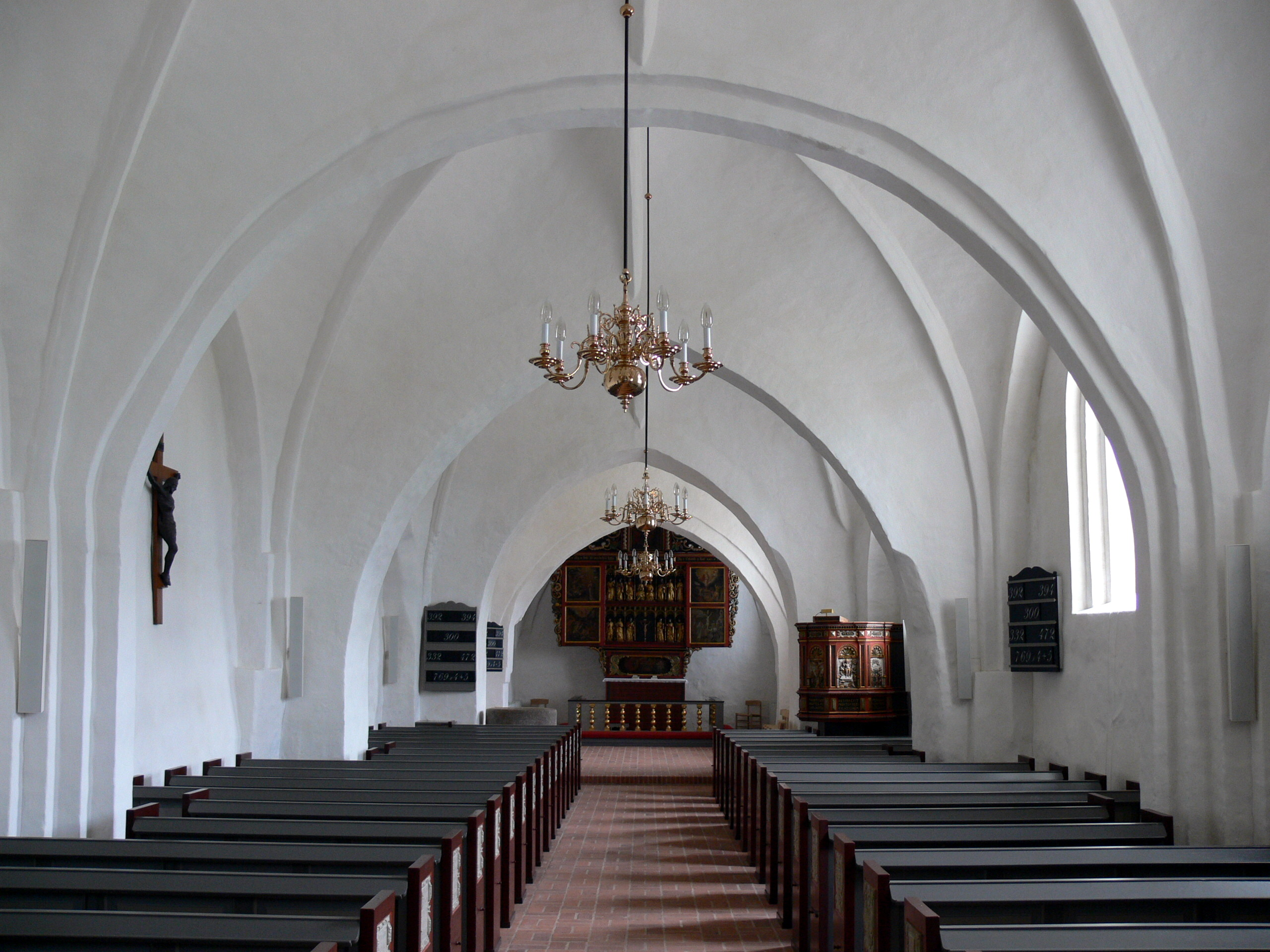 Emmerlev parish church ( Denmark ). Interior.